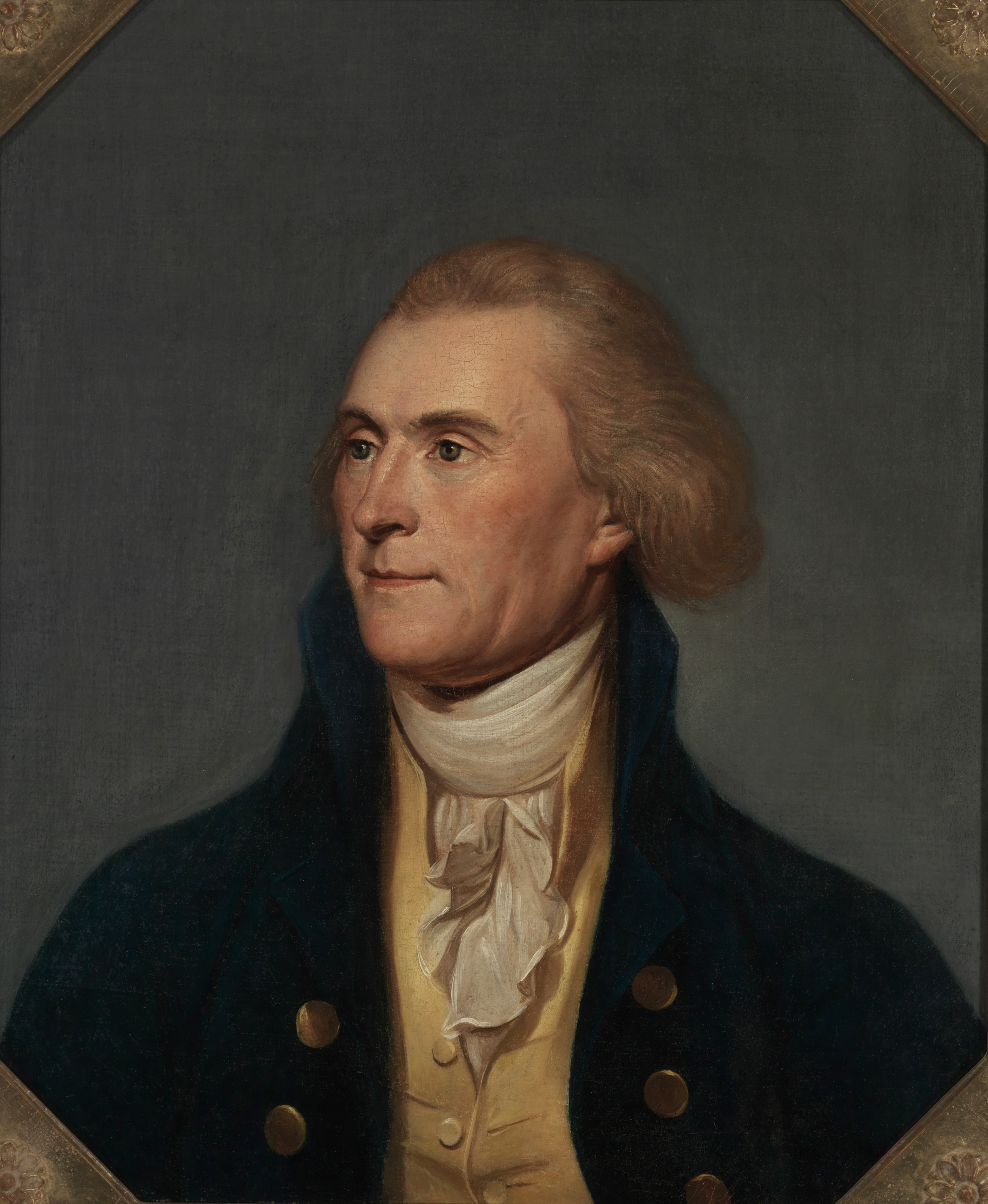 Portrait of Thomas Jefferson which hangs in the Thomas Jefferson State Reception Room on the 8th floor of the main U.S. Department of State building in Washington, D.C. It was painted by Charles Willson Peale while Jefferson was Secretary of State. It is probably a replica of Peale's 1791 portrait of Jefferson which hangs in the Independence National Historical Park. For more information, see here and here.